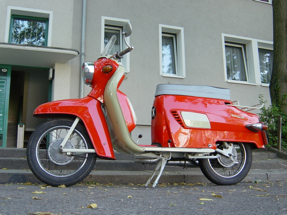 1960s Tatran S 125 scooter from „Povazske Strojarne“ in Považská Bystrica, (Slovakia).